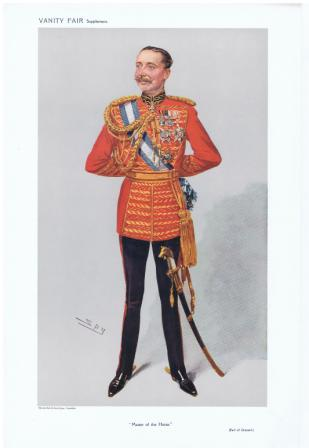 Caricature of Earl of Granard Vanity Fair 1 July 1908. Caption read "Master of the Horse"